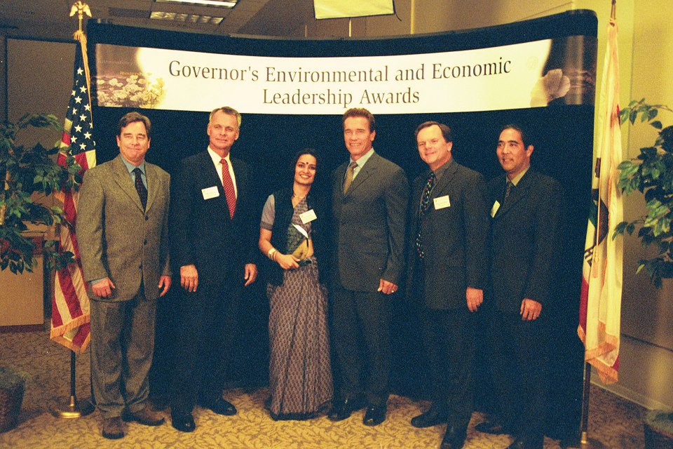 Arnold Schwarzenegger awarding the highest and most prestigious State of California's Environmental and Economic Hero award to Ms. Ritu Primlani